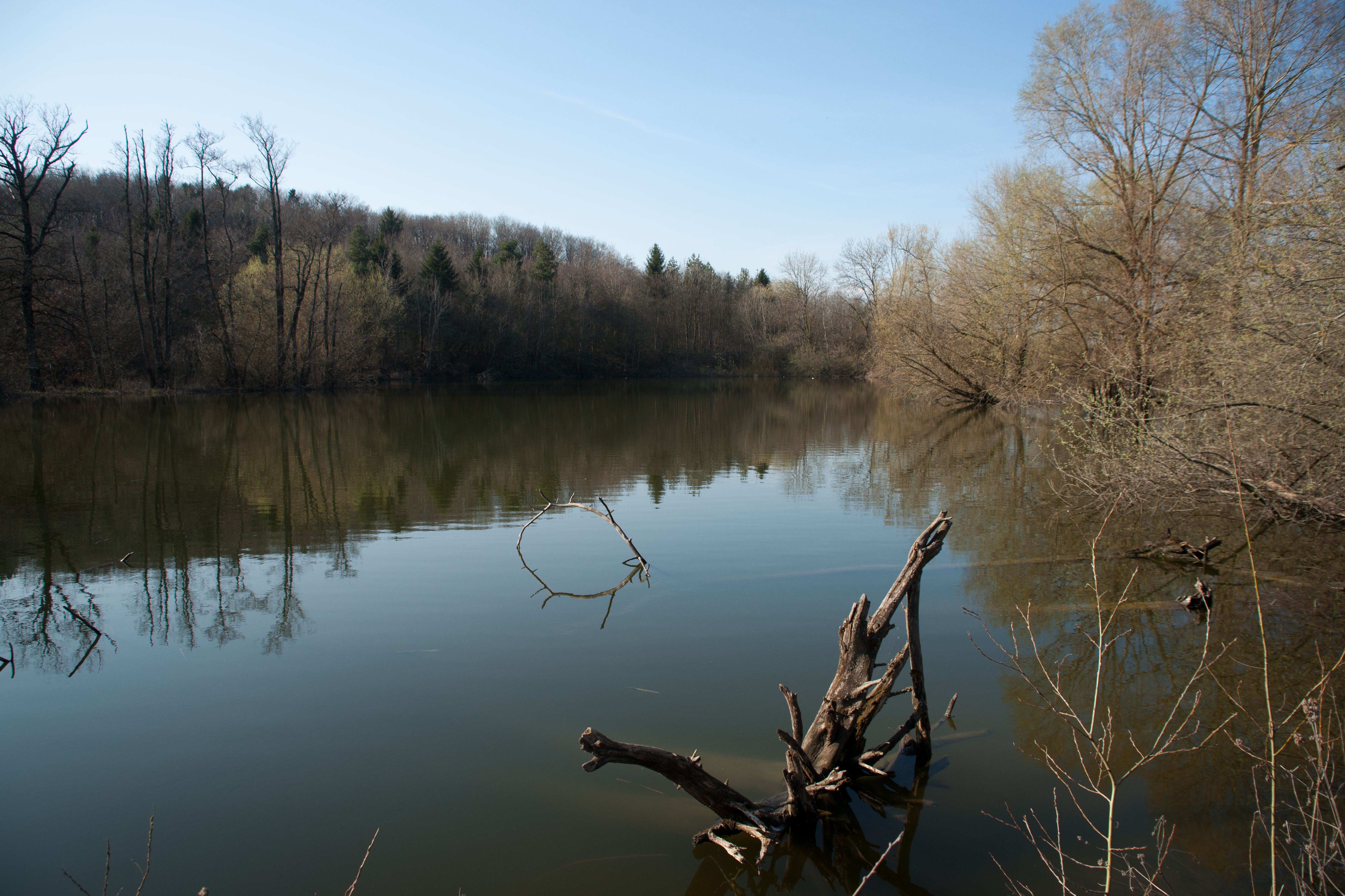 L'Ecoffy, lake in the municipality of Bettens, canton of Vaud, Switzerland.